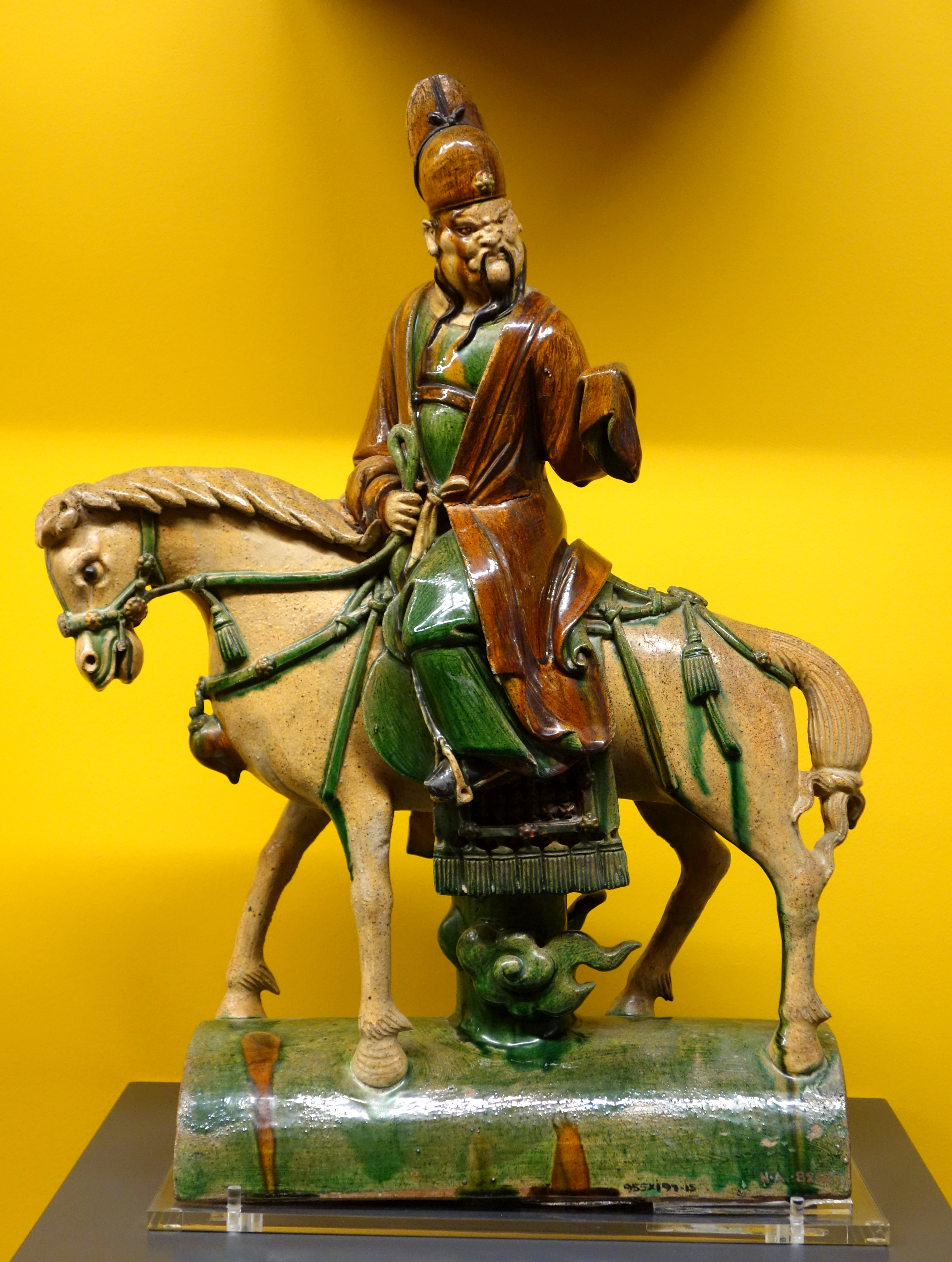 Exhibit in the Royal Ontario Museum, Toronto, Ontario, Canada. This work is old enough so that it is in the public domain.